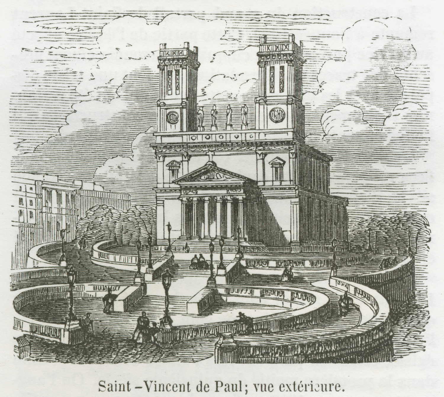 A view of the Saint-Vincent de Paul church in Paris.